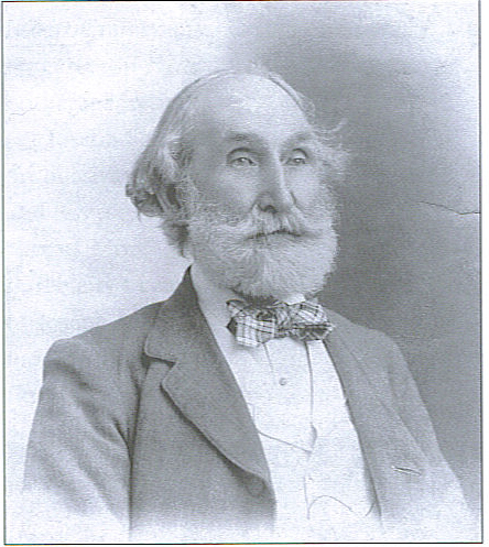 Joseph Salter